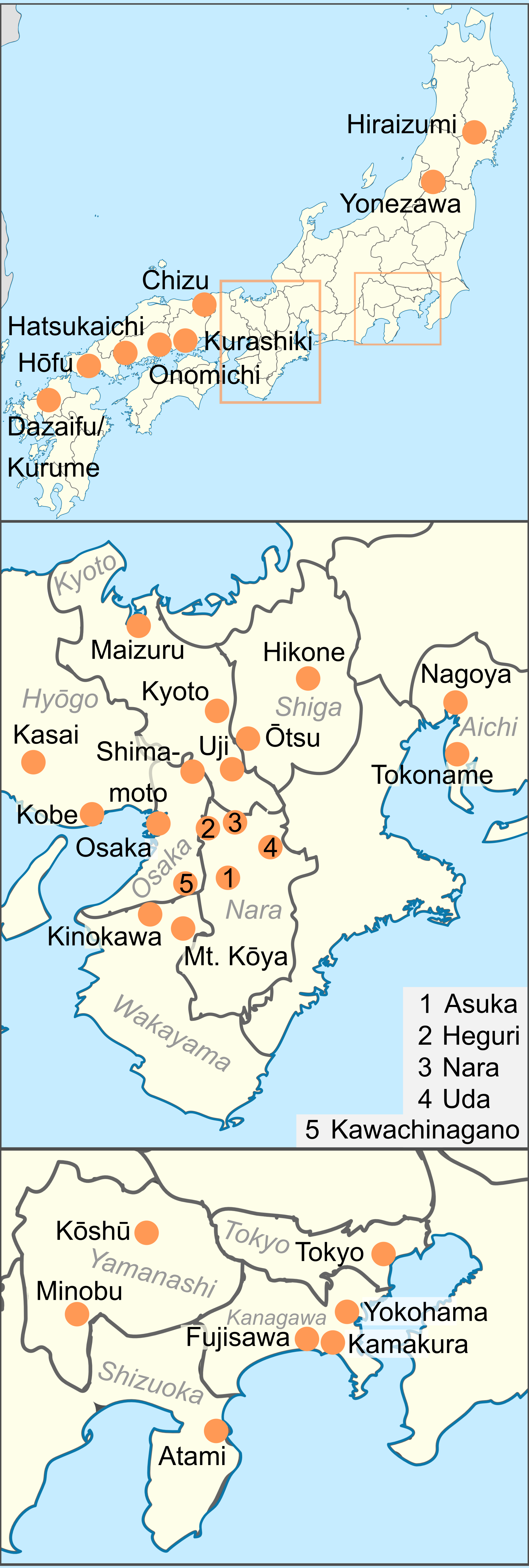 Map showing the location of National Treasures of Japan in the category paintings.